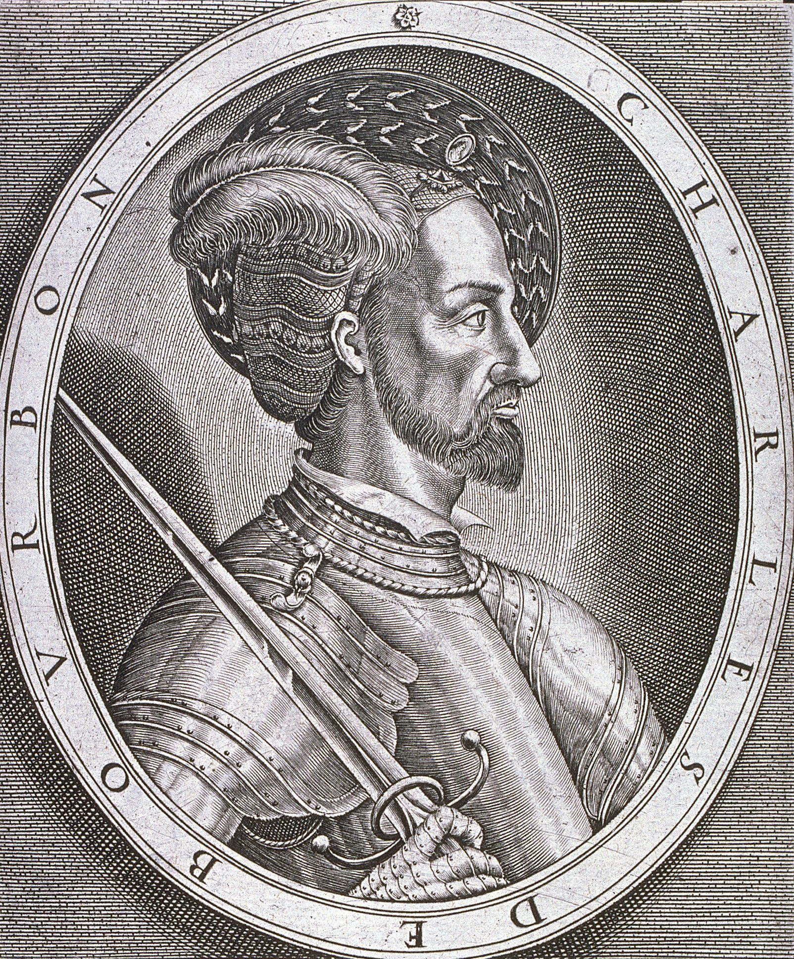 Portrait of Charles III of Bourbon-Montpensier (cropped from Image:KarlIIIvonBourbon01.jpg)